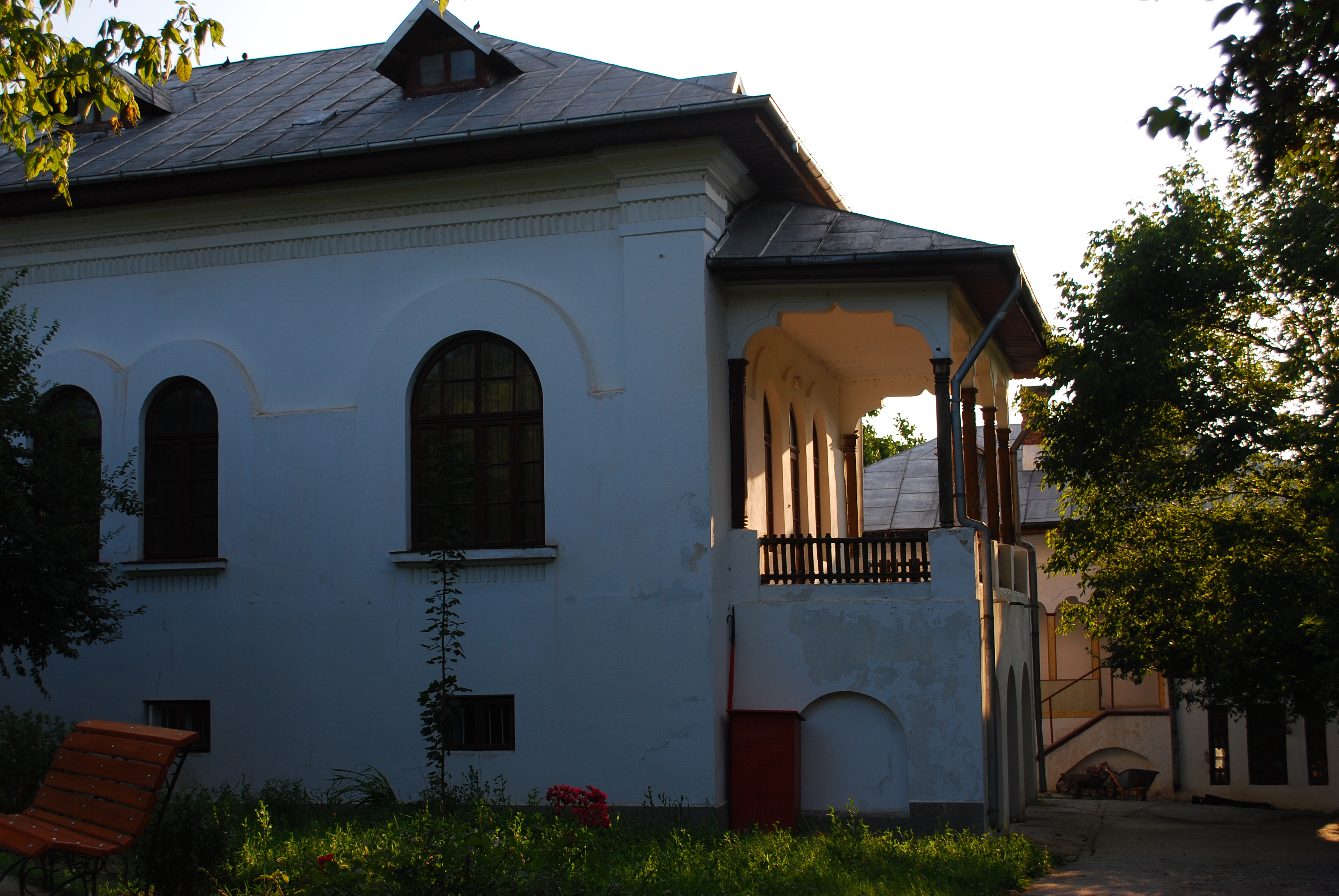 Museum of the Cernica monastery, Pantelimon, Ilfov County, Romania